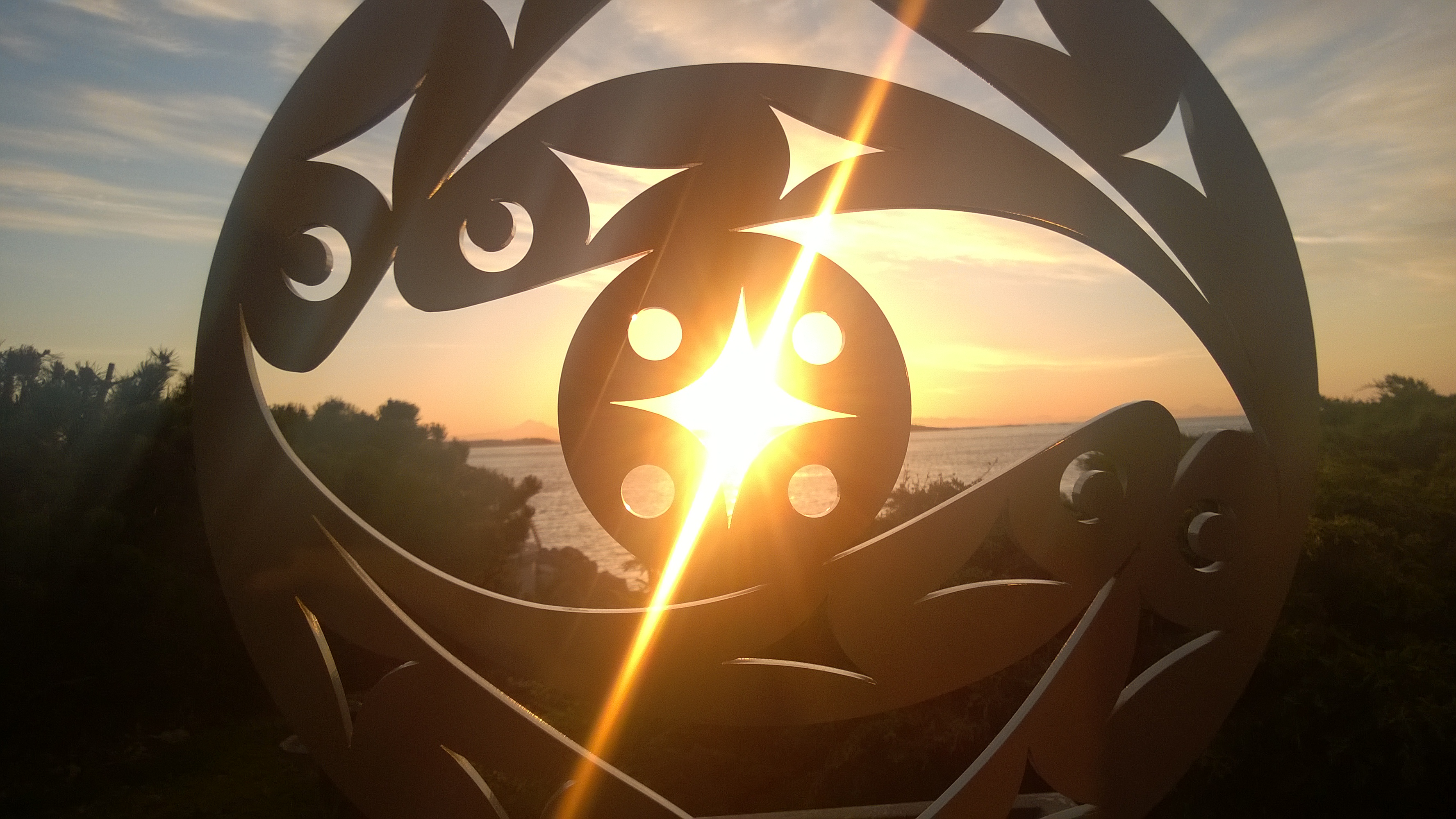 The Salish Sun - Heart of the Salish Sea Walk of the Planets Orrery. The eye is clearly and intentionally off-center symbolizing the imbalance in the Earth's biosphere and especially here in the Salish Sea. The fish are herring, the critical fish needed by the food chain and now dangerously reduced from the billions that used to be here so few years ago. Overall the circular shape is that of the Salish whorl used in Coast Salish Art. The Salish symbols dominate all objects in the iron sculpture. The "Eye" will align with the rising sun on the summer solstice.